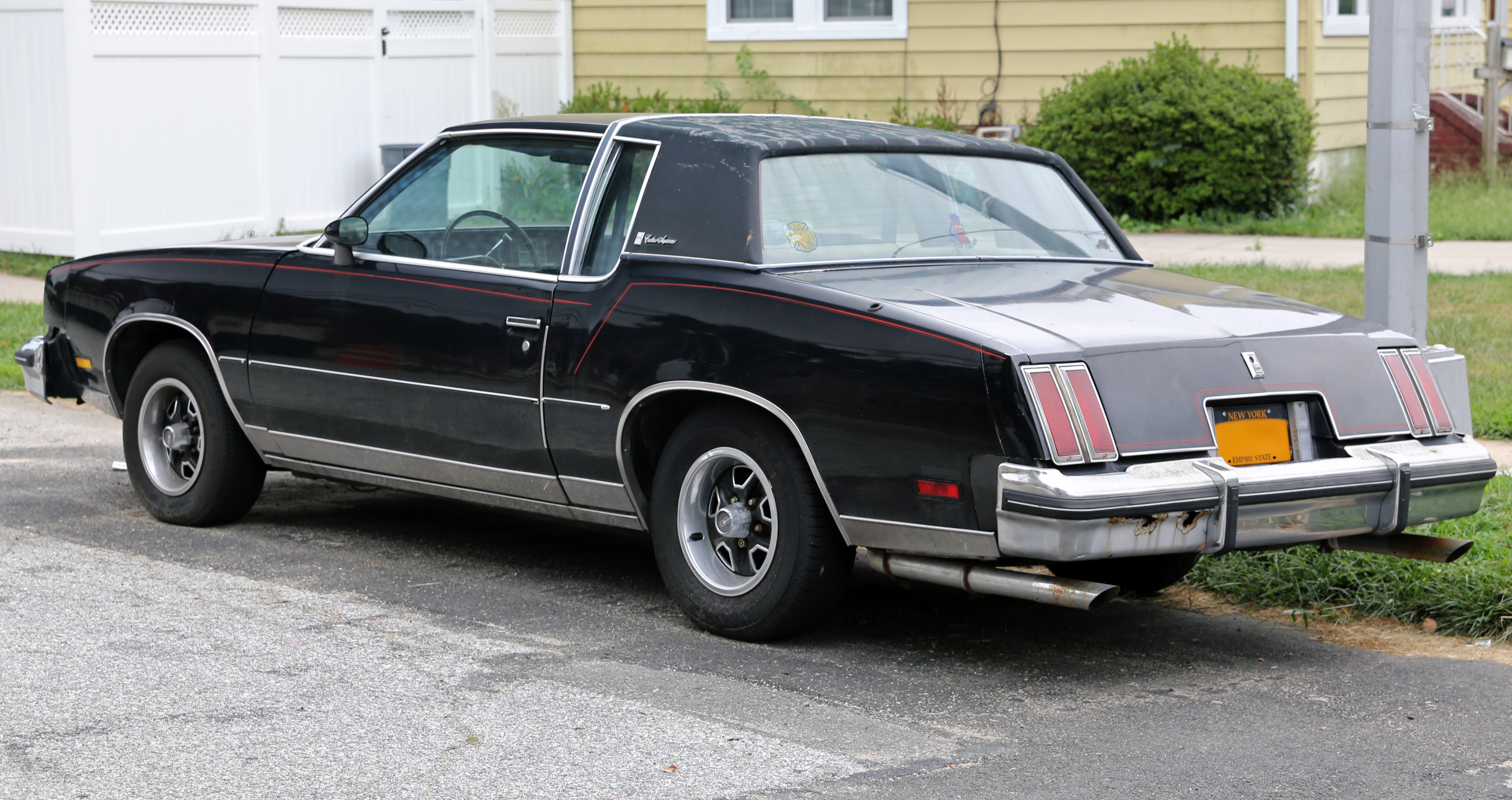 Rear 3/4 view of a 1980 Oldsmobile Cutlass Supreme coupé, 4.2 litre 2-barrel V8 (260ci).